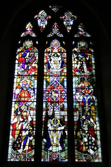 Wilhelmus window, near to Penshurst, Kent, Great Britain. Splendid stained glass window by Lawrence Lee in St.John the Baptist's church, presented by the people of Penshurst in August 1970 in commemoration of the institution of Wilhelmus as the first Parish priest on 27th December 1170 by St.Thomas Becket.